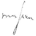 Signature of Marion Mushkat